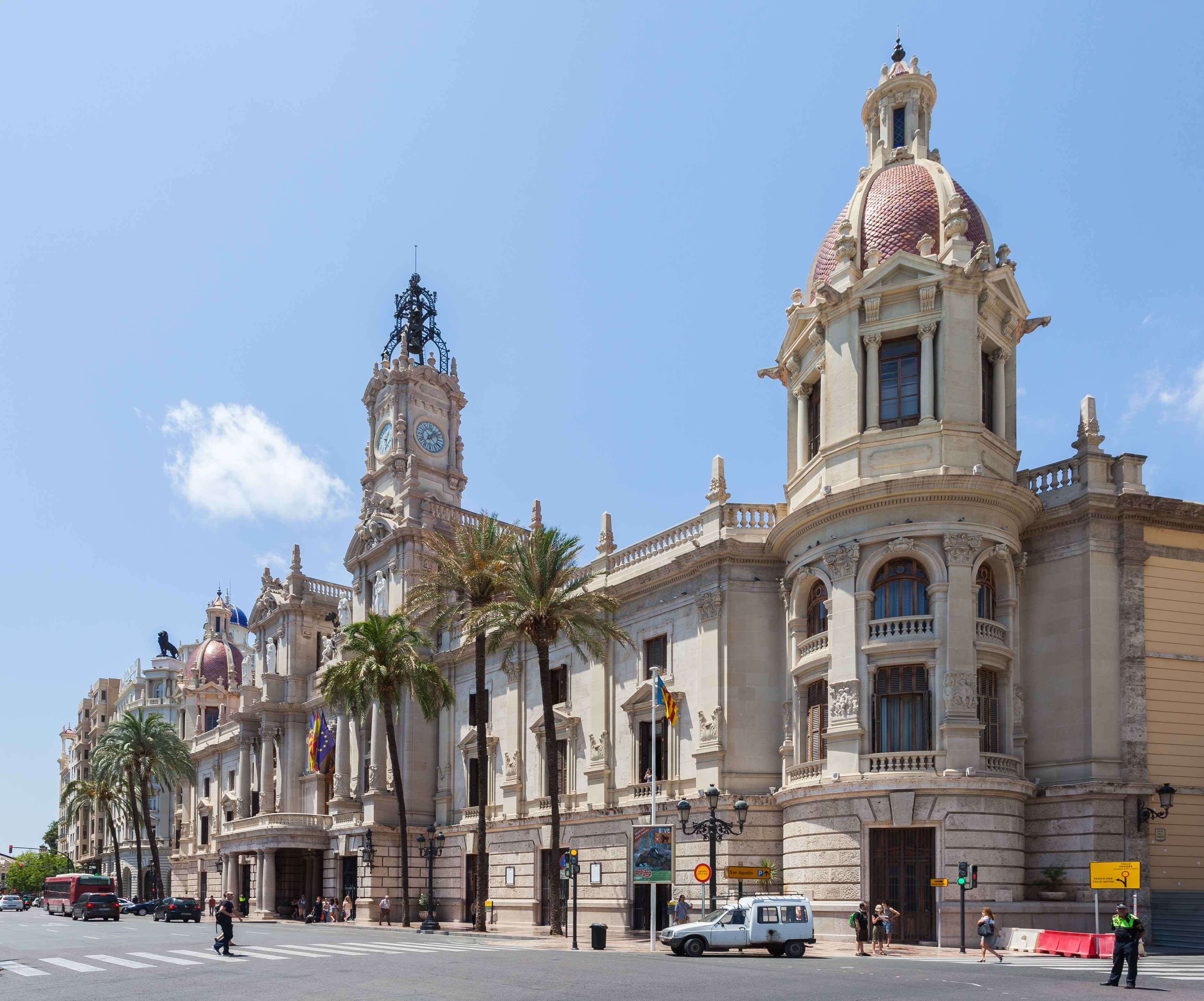 City hall, Valencia, Spain.